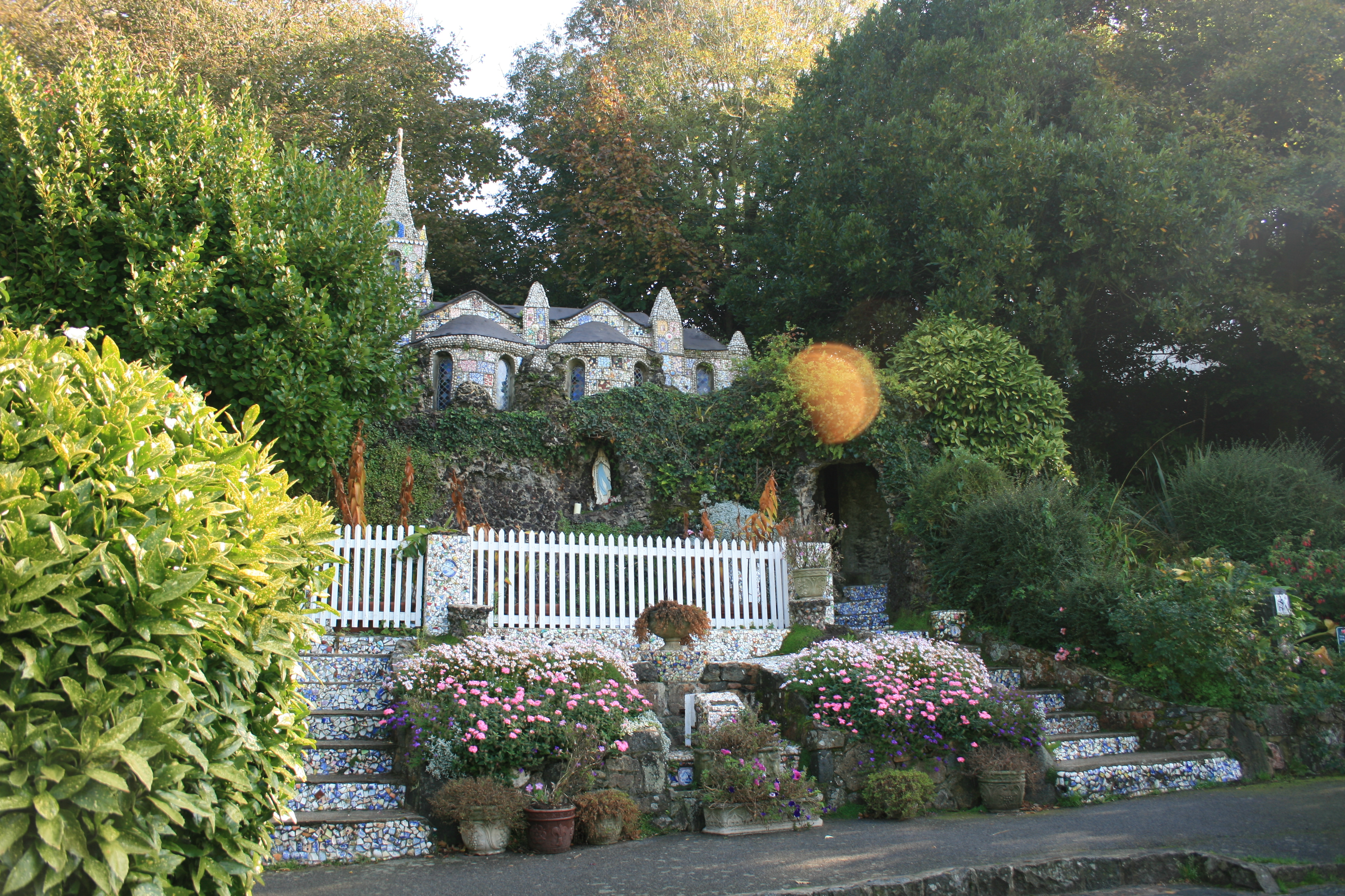 Built by Brother Deodat, a member of The Brothers of the Christian Schools.